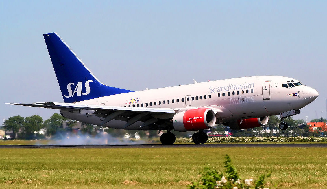 SAS 737 Schiphol airport